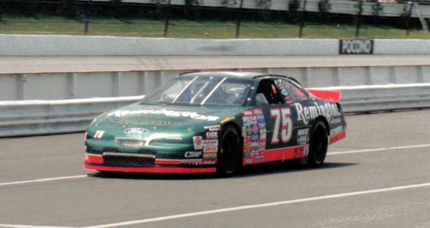 NASCAR driver Rick Mast and the #75 in 1997 at Pocono